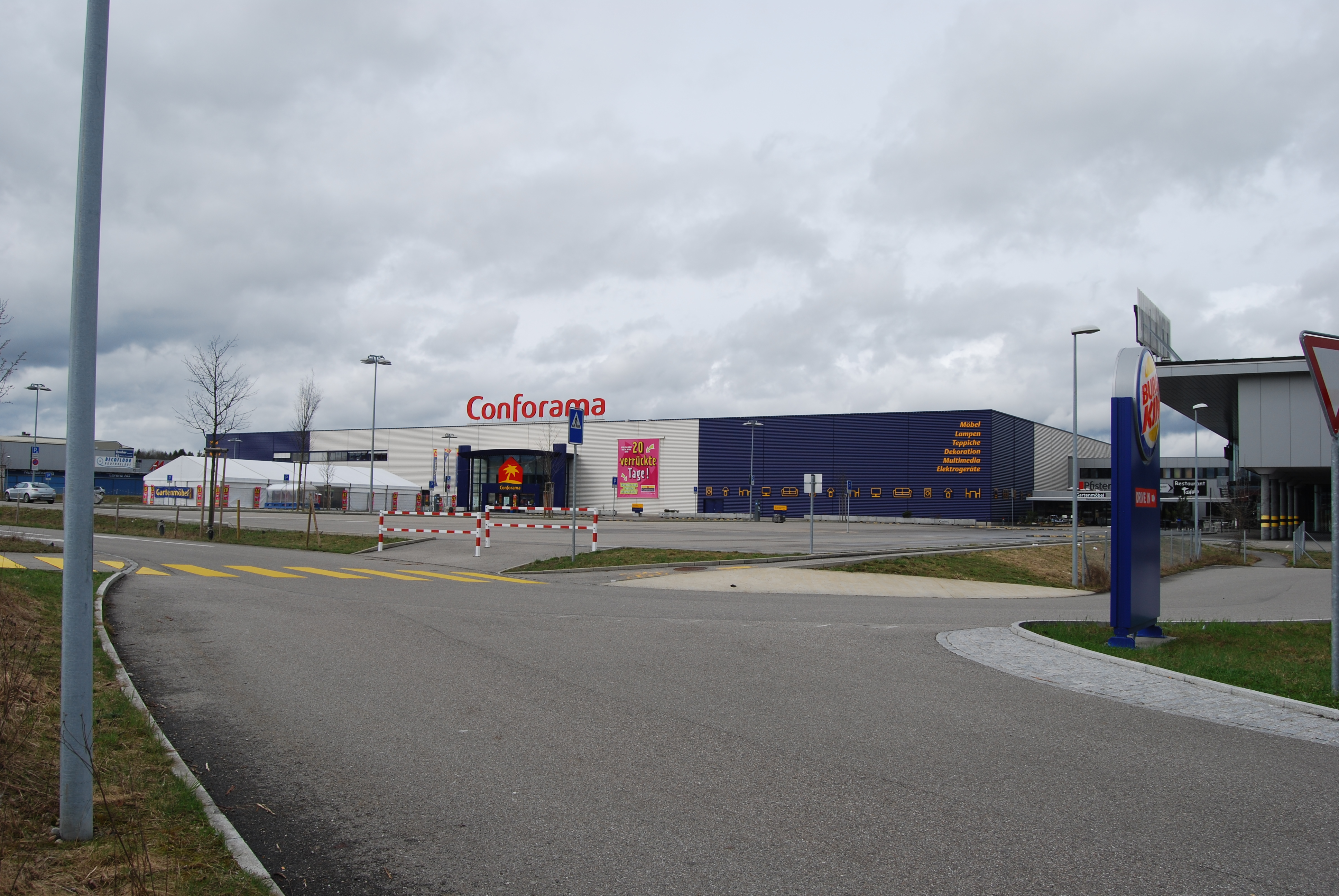 Rüdtligen-Alchenflüh, canton of Bern, SwitzerlandEsperanto: Rüdtligen-Alchenflüh, Kantono Berno, Svislando